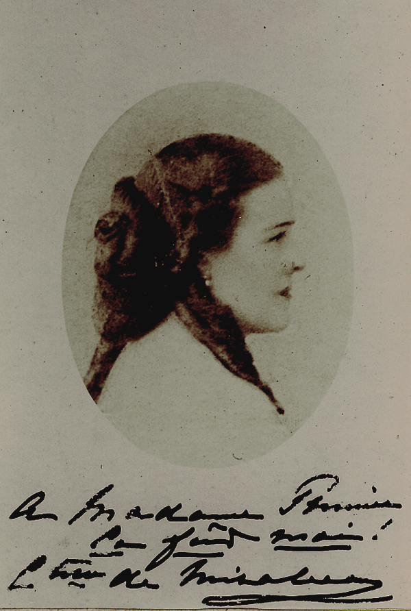 Photographic portrait of Marie Le Harivel de Gonneville, par son mariage comtesse de Mirabeau, French writer.